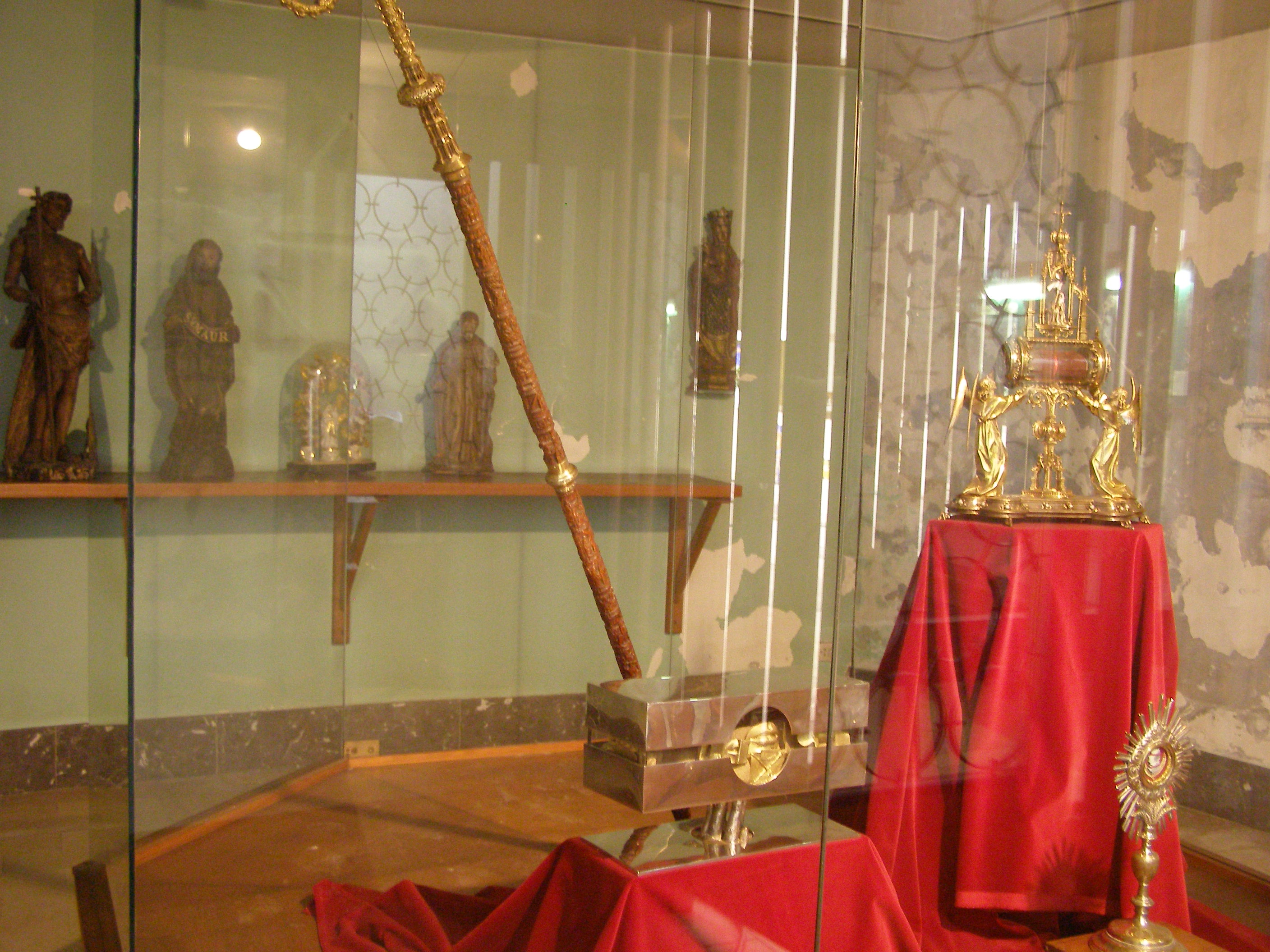 Part of the treasure of the church.